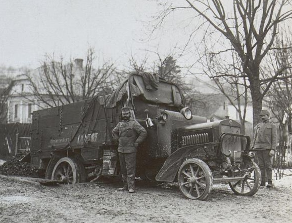 Autounfall auf einer Kanalbrücke bei Brzezany